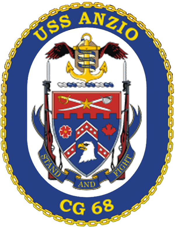 Emblem of the USS Anzio (CG-68)